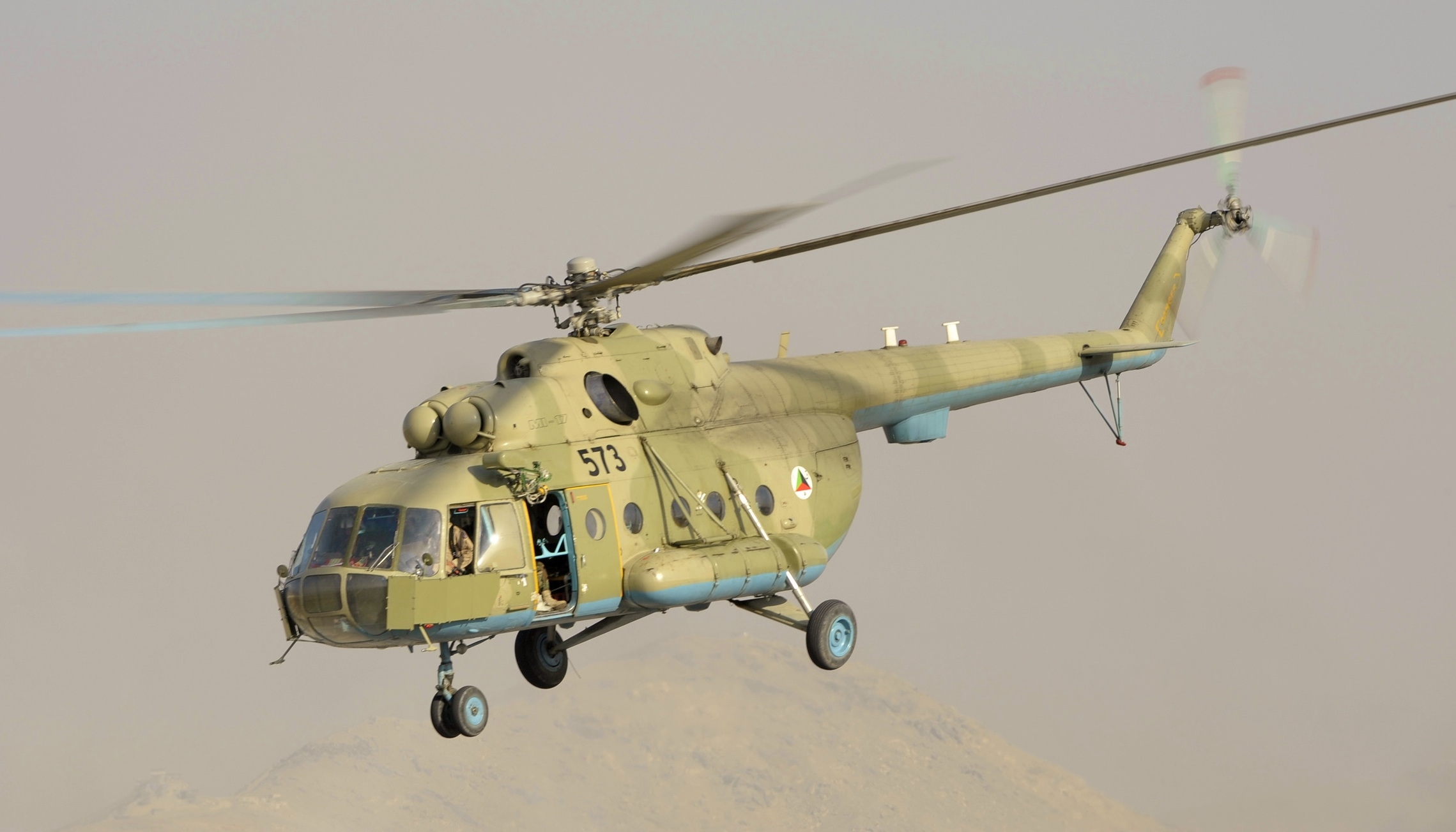 KABUL, Afghanistan -- An Afghan National Army Air Corps Mi-17 helicopter takes off on a mission here. The ANAAC is being mentored in western methodologies of flying operations by members of the 438th Air Expeditionary Wing. (U.S. Air Force photo/Master Sgt. Keith Brown)